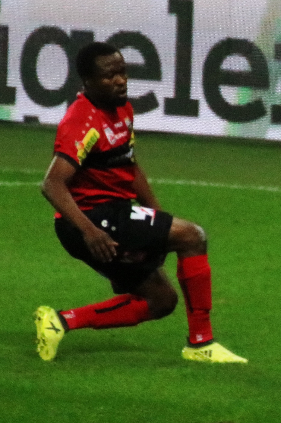 league match Austrian Bundesliga